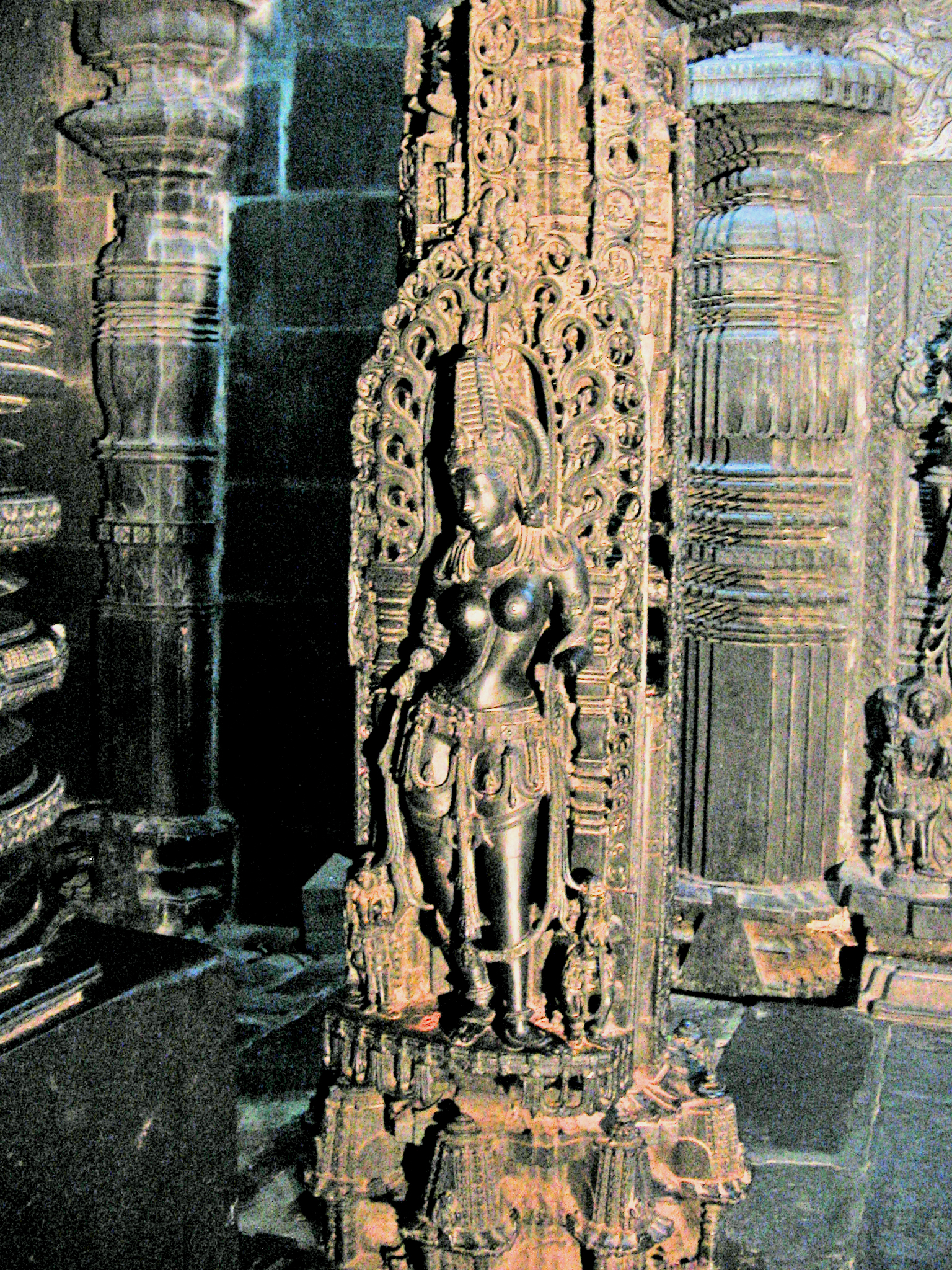 the most beautiful and enchanting female form of Lord Vishnu. It was too dark inside the temple but this sculpture is still manages to grab your attention.